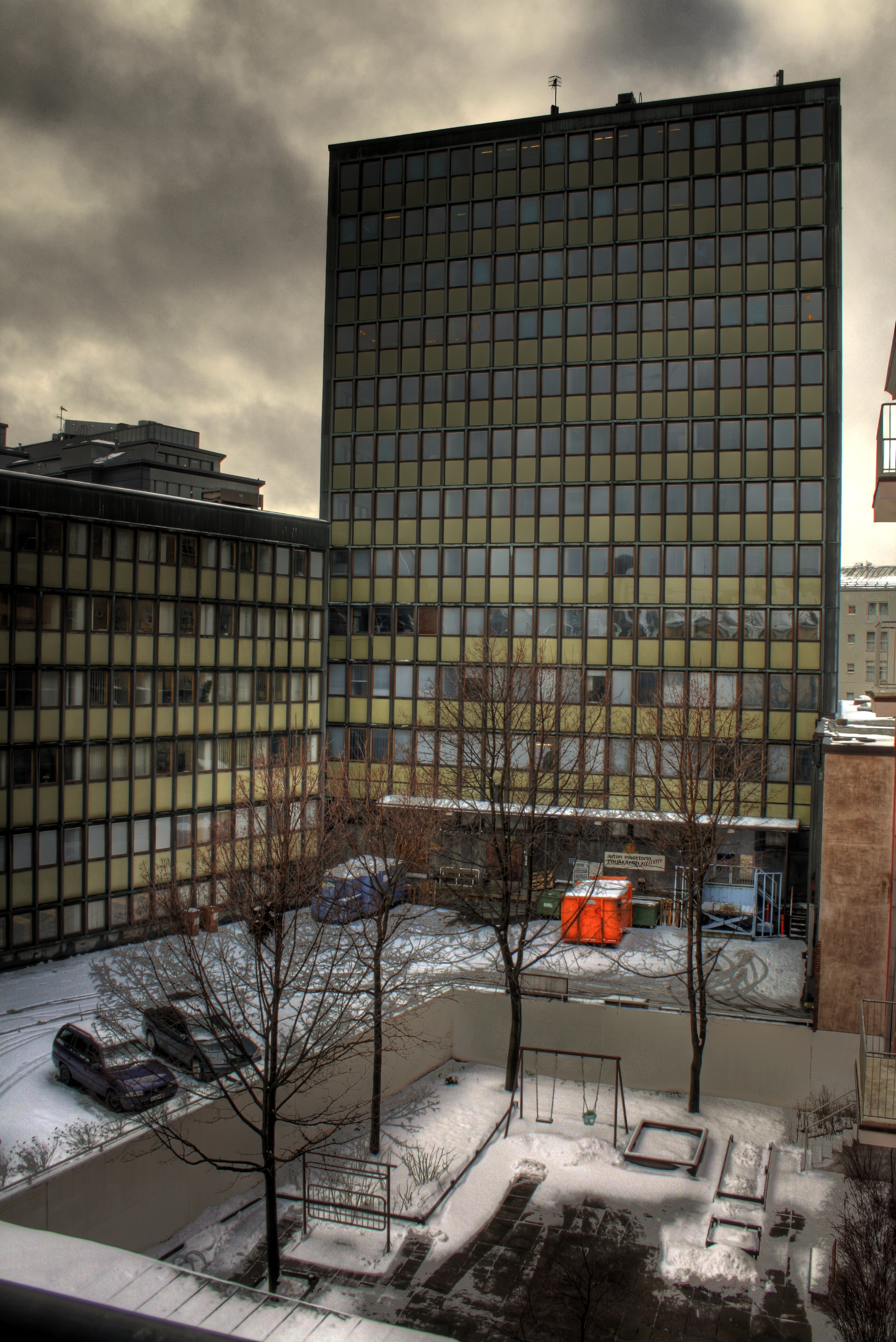 The building of the former Kansa-yhtymä insurance company, Sörnäinen, Helsinki, Finland